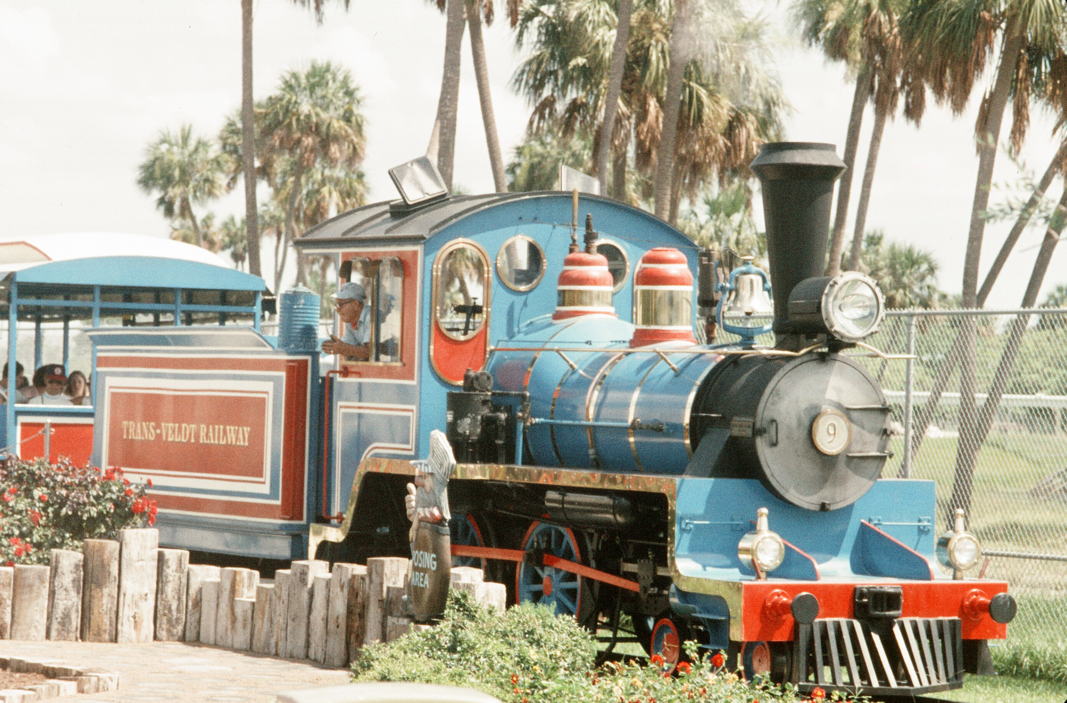 Photo taken in July-August of 1972.